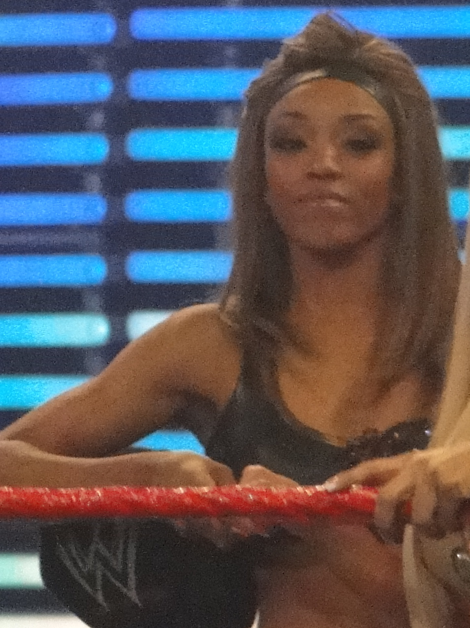 Royal Rumble divas match